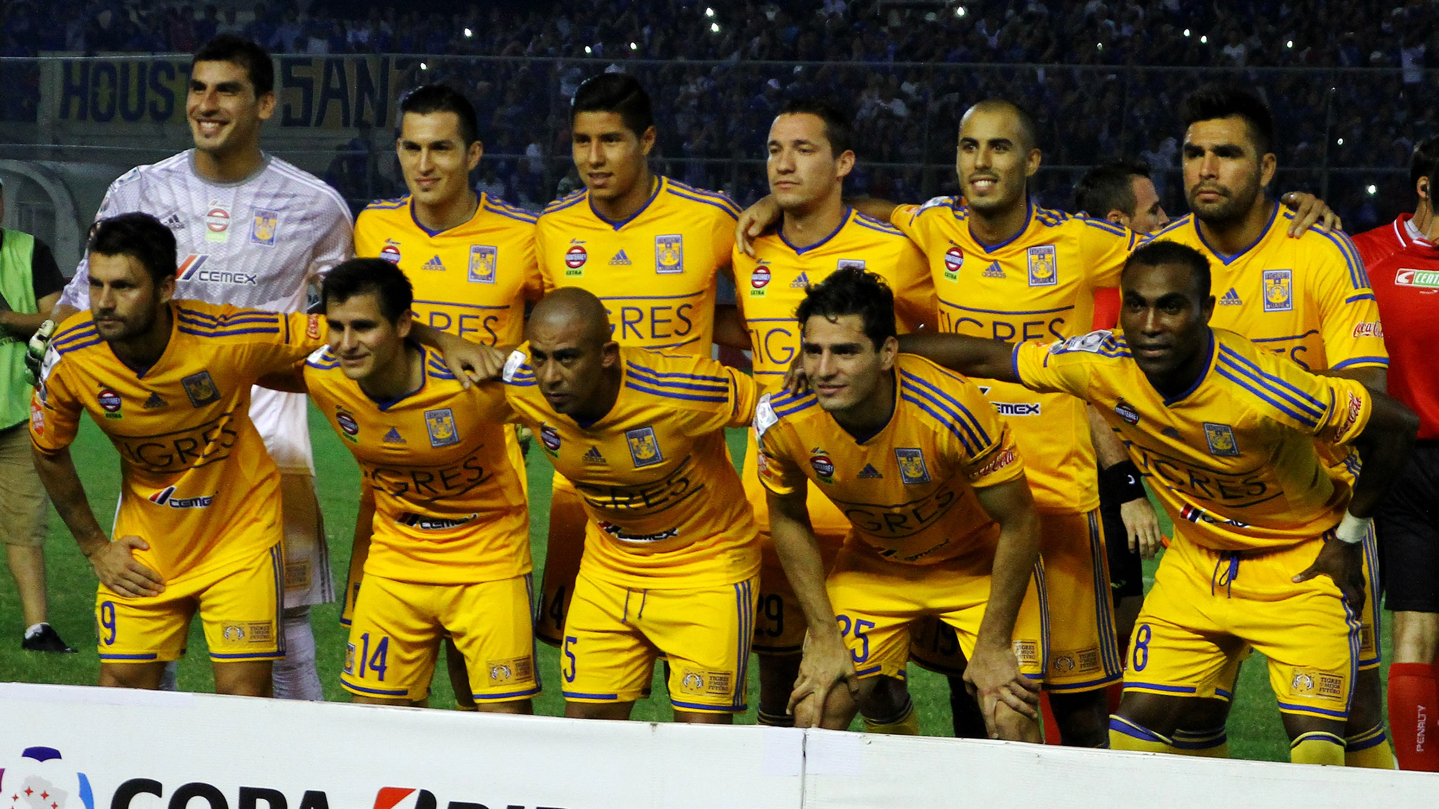 Manta, 19 de may (Andes).-El equipo Tigres de México se enfrenta a Emelec en el partido de ida por los cuartos de finales de la Copa Libertadores, en el estadio Jockay de la ciudad de Manta, ManabíFotos:César Muñoz/Andes